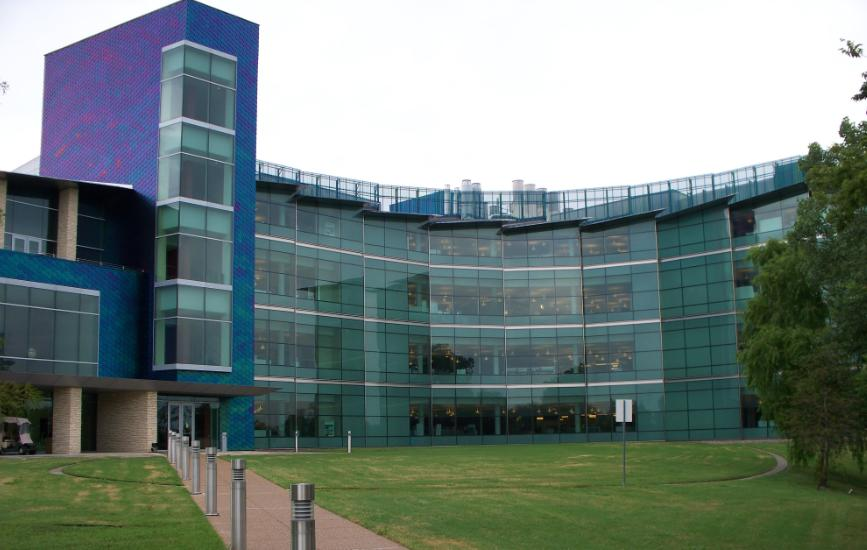 The Natural Science Engineering and Research Lab (NSERL) building at The University of Texas at Dallas (taken 26 July 2010)